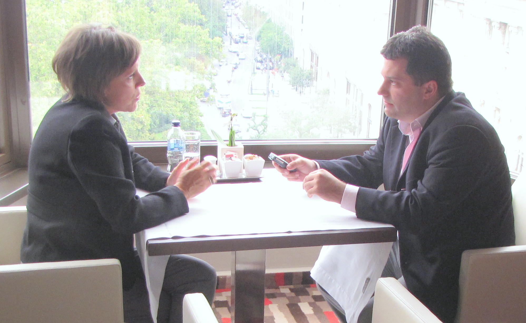 Dr. David Horvath journalists